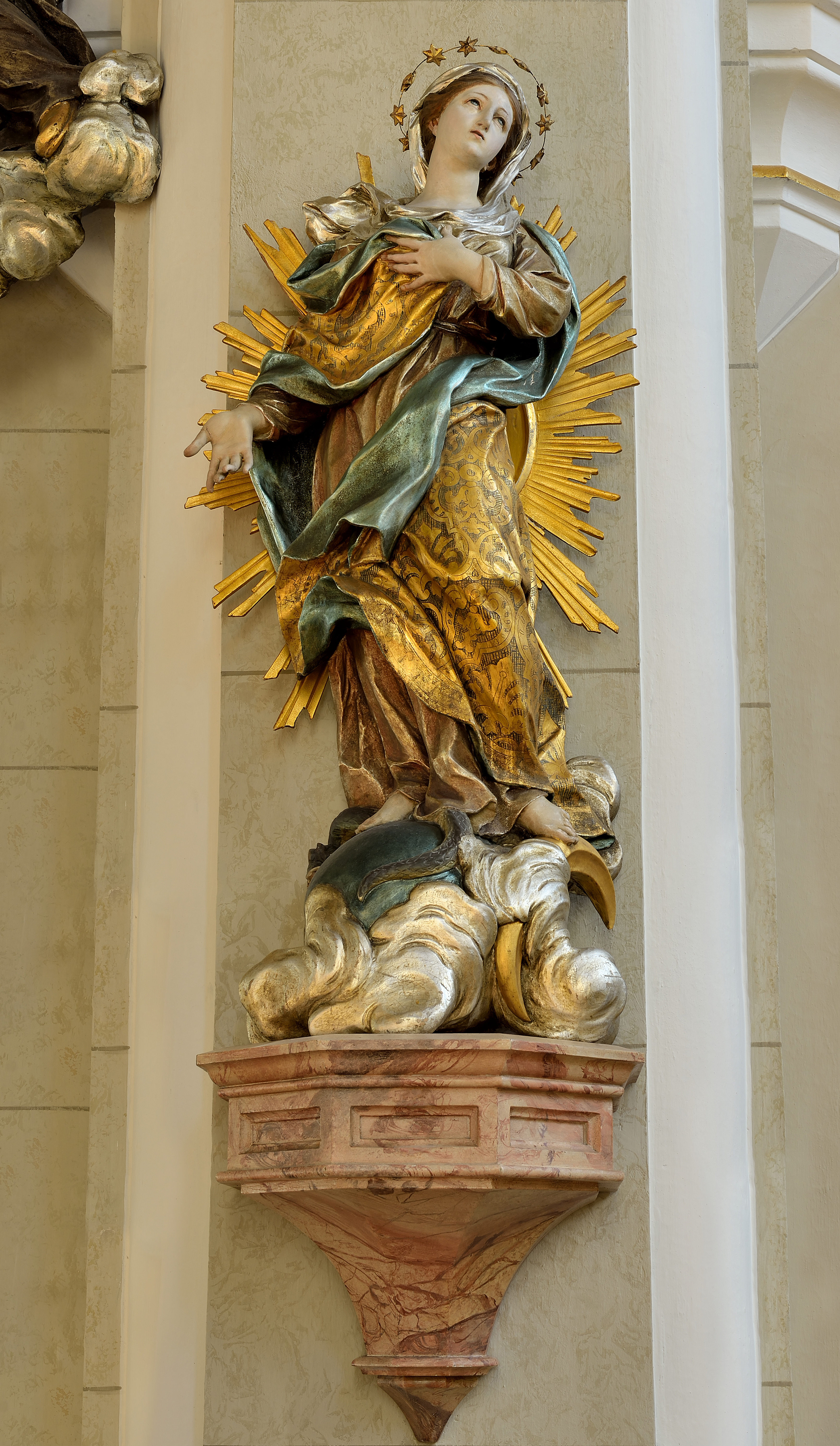 Virgin Mary in a polychromed woodcarved statue by Domëne Moling in the parish church in La Val